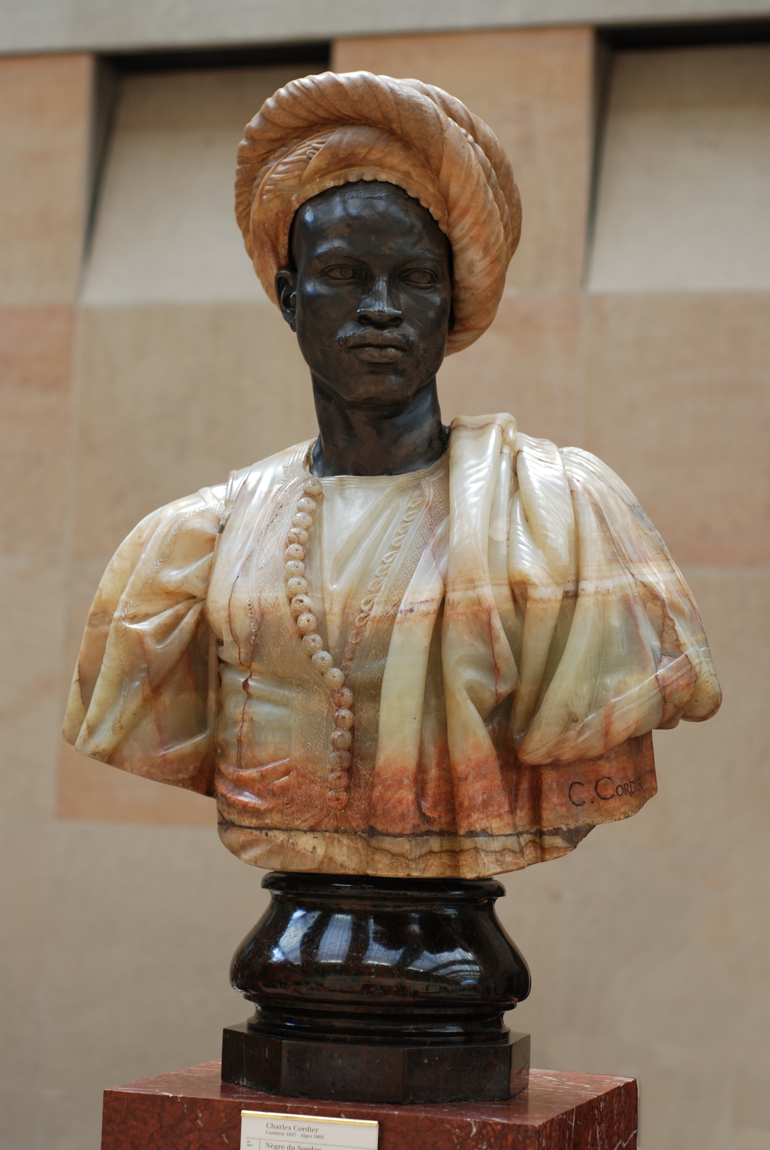 Charles Cordier, Negro of Sudan, between 1856 and 1857, Orsay Museum, Paris.